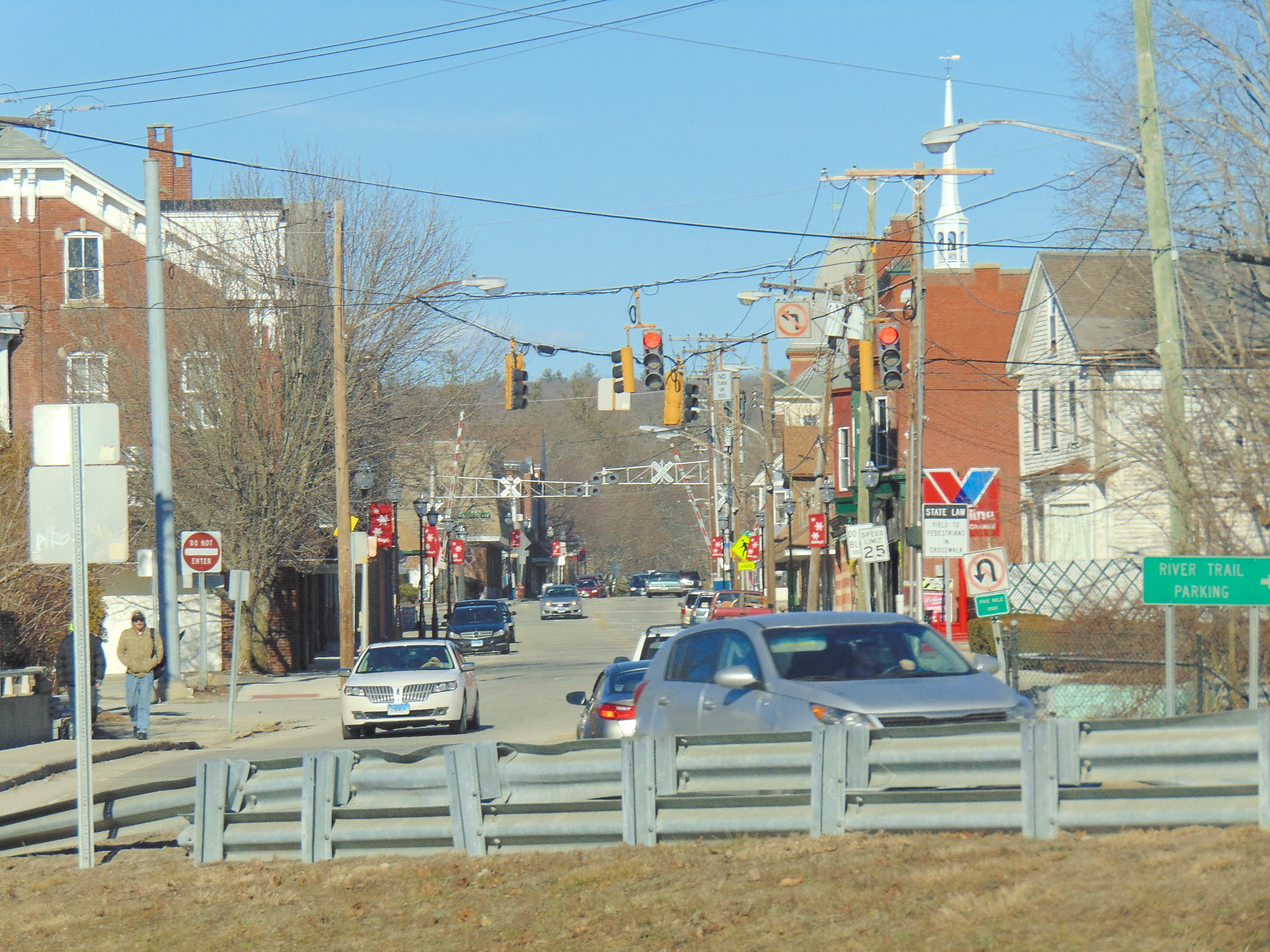 A photo looking down CT 12 (Main St.) in the Danielson borough of Killingly, Connecticut.